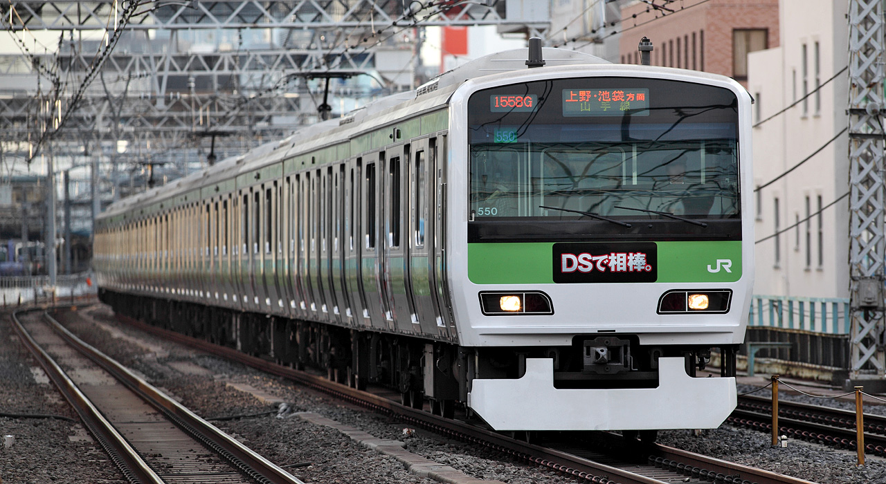 JR East E231-500 series on Yamanote Line ( 550F / Akihabara Sta. ~ Okachimachi Sta. ).